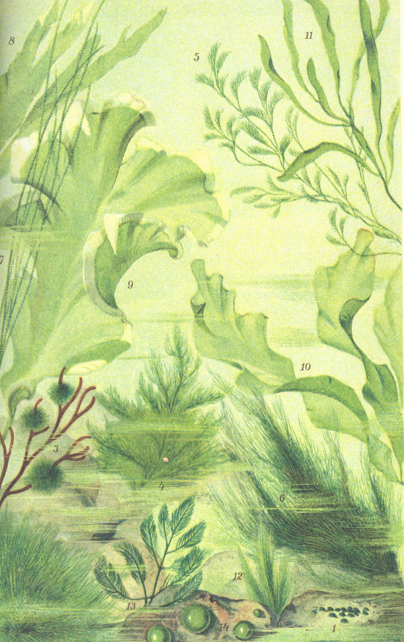 Algues bleues, Cyanophycees: 1- Rivularia Algues vertes, Chlorophycees: 2- Cladophora arcta, 3- Cladophora lanosa, 4- Cladophora sericea, 5- Cladophora Hutchinsiae, 6- Cladophora rupestris, 7- Chaetomorpha morea, 8- Monostroma Grevillei, 9- Ulva lactuca, 10- Enteromorpha, 11- Enteromorpha compressa, 12- Ulothrix flacca, 13- Bryopsis plumosa, 14- Valonia ovalis Subject: Algae, Green algae, Cladophora, Ulva, Enteromorpha, Valonia Tag: Aquatic Botany